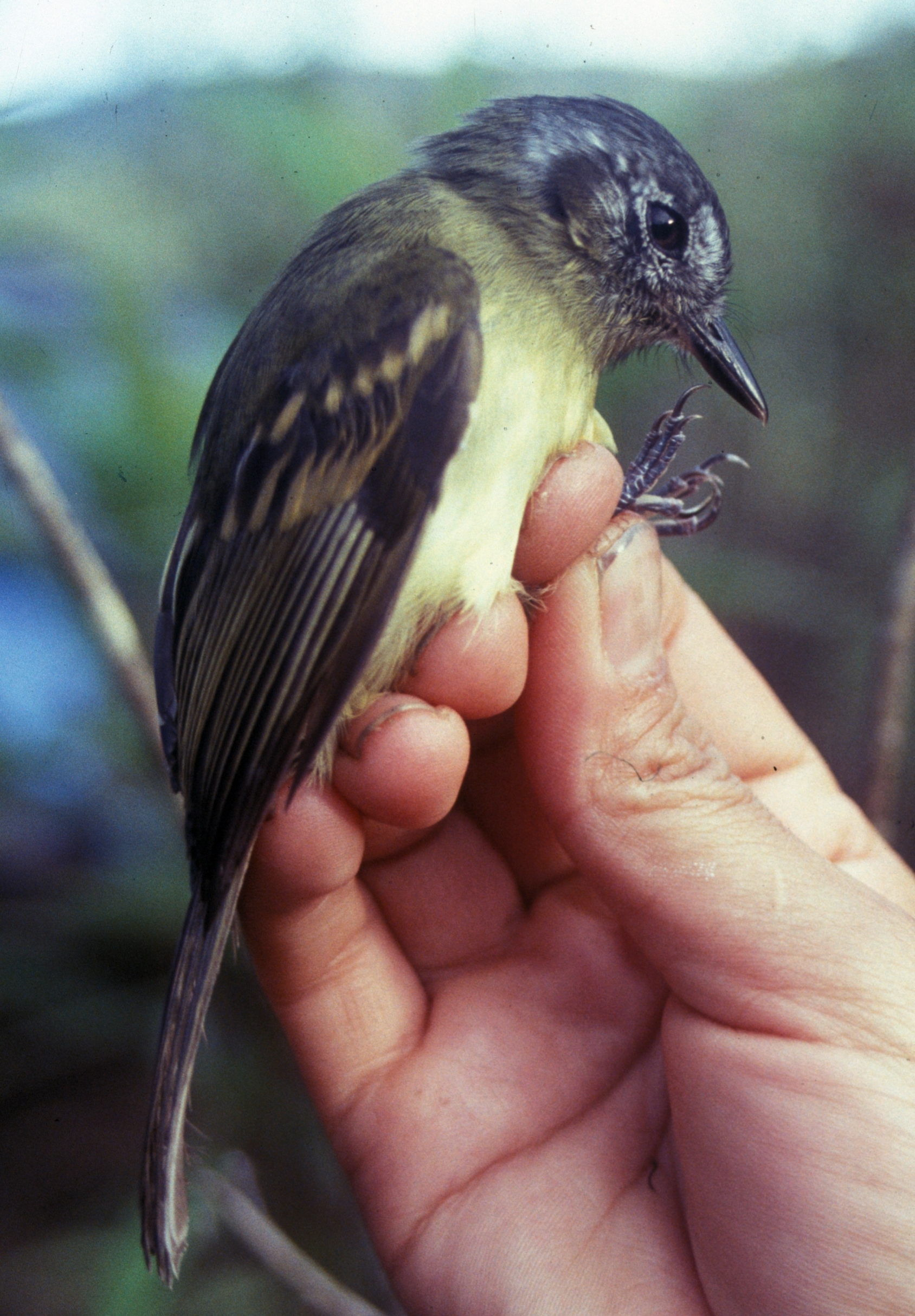 Slaty-capped Flycatcher (Leptopogon superciliaris) from Ecuador